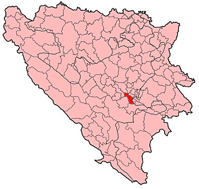 Location of Ilidža municipality in Bosnia and Herzegovina.